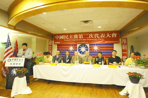 China Democracy Party 中国民主党